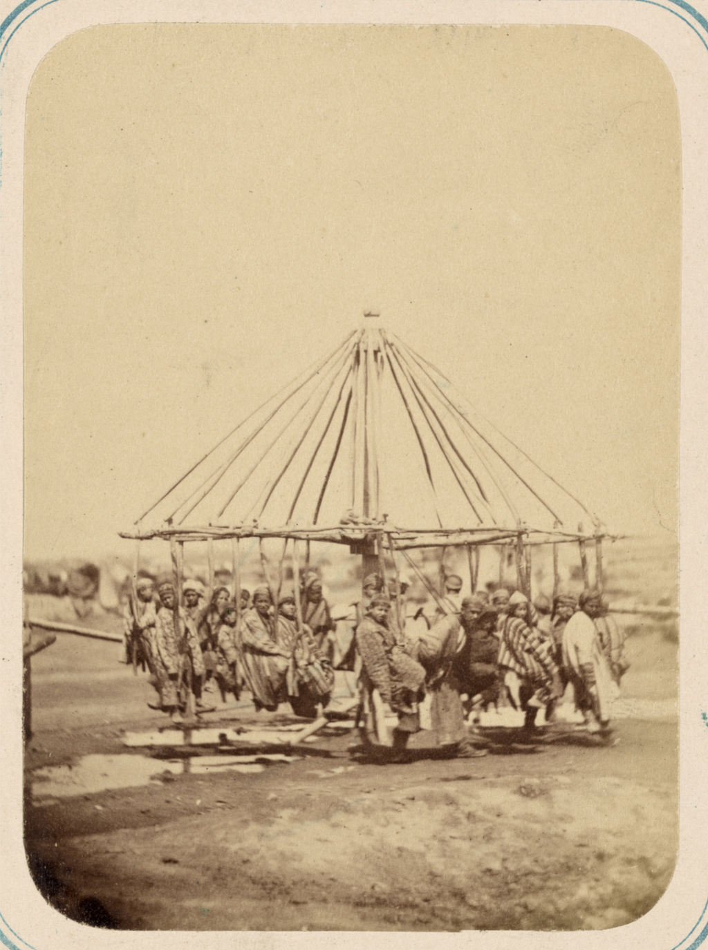 This photograph is from the ethnographical part of Turkestan Album, a comprehensive visual survey of Central Asia undertaken after imperial Russia assumed control of the region in the 1860s. Commissioned by General Konstantin Petrovich von Kaufman (1818–82), the first governor-general of Russian Turkestan, the album is in four parts spanning six volumes: “Archaeological Part” (two volumes); “Ethnographic Part” (two volumes); “Trades Part” (one volume); and “Historical Part” (one volume). The principal compiler was Russian Orientalist Aleksandr L. Kun, who was assisted by Nikolai V. Bogaevskii. The album contains some 1,200 photographs, along with architectural plans, watercolor drawings, and maps. The “Ethnographic Part” includes 491 individual photographs on 163 plates. The photographs show individuals representing the different peoples of the region (Plates 1–33); daily life and rituals (Plates 34–91); and views of villages and cities, street vendors, and commercial activities (Plates 92–163). Children; Ethnographic photographs; Festivals; Folk festivals; Merry-go-rounds; New Year; Photographic surveys; Turkic peoples